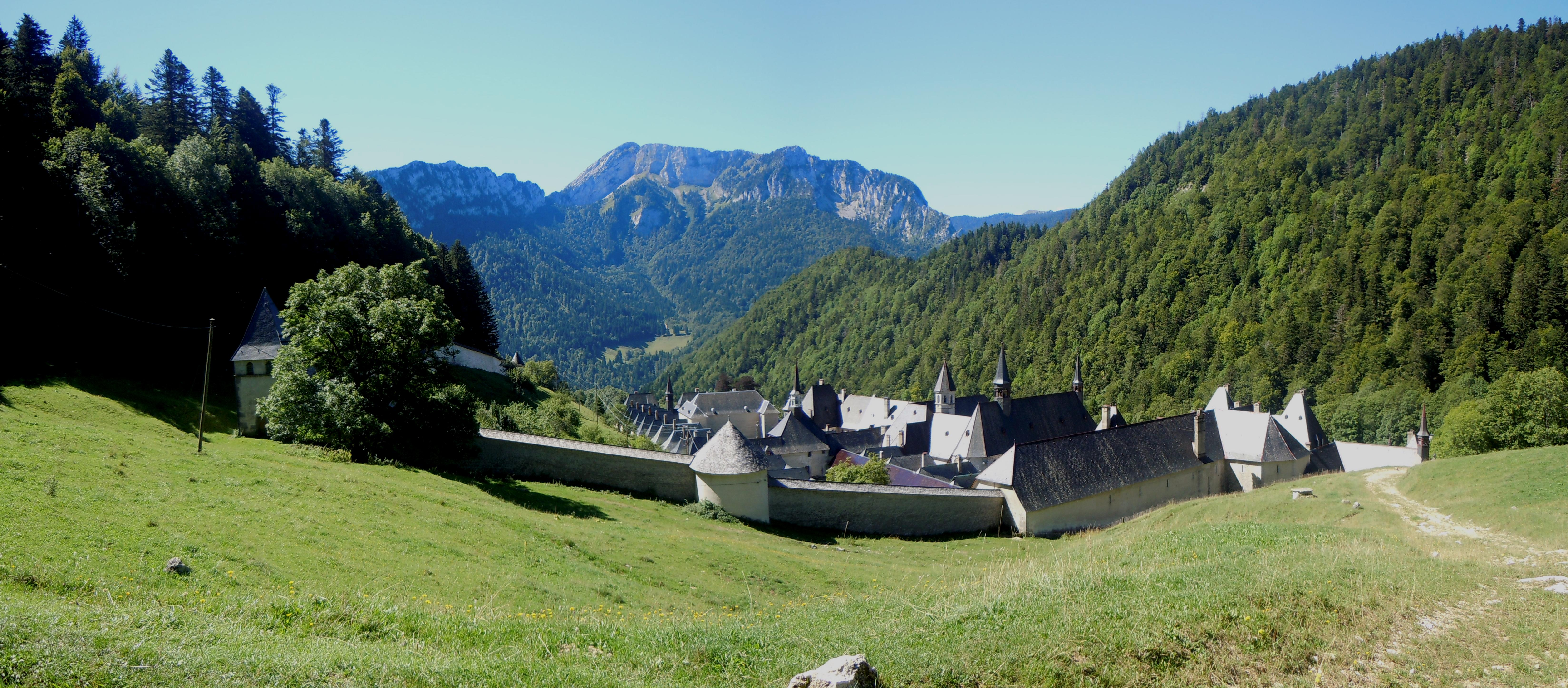 Monastery of the Grande Chartreuse (Isère, France)